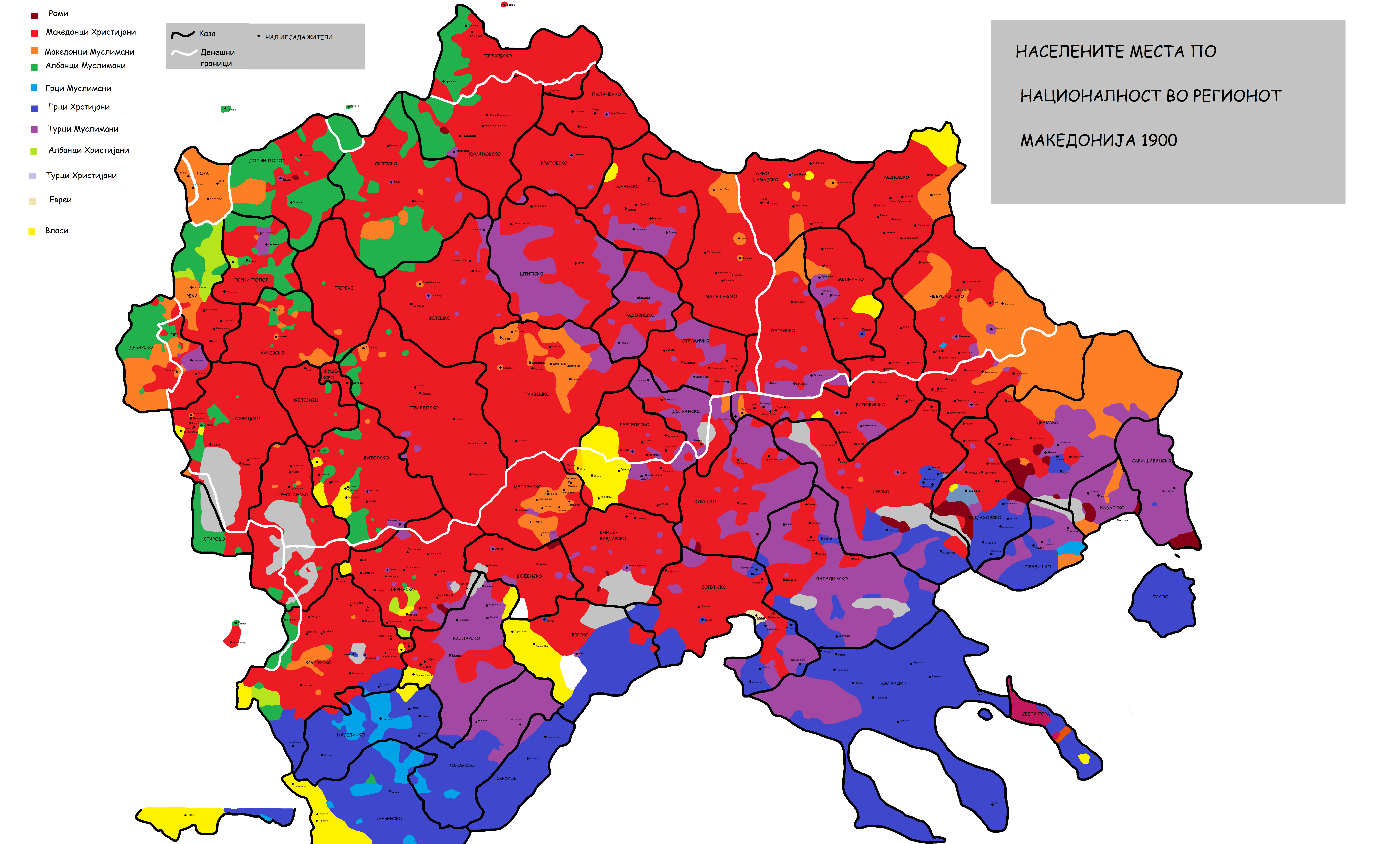 На картата се прикажани мнозинството од народите кои живееле во Македонија на почетокот на ХХ век во различните региони